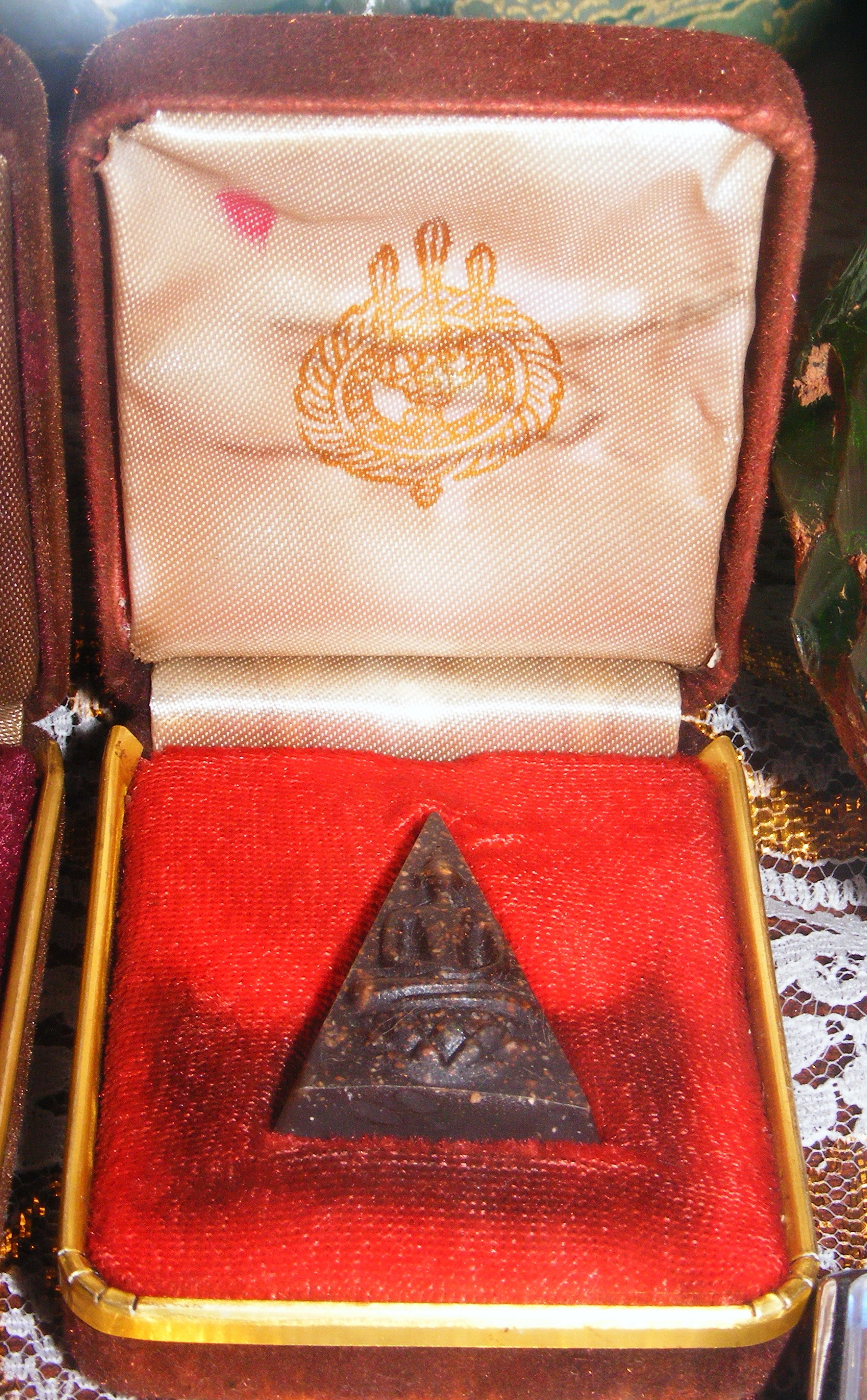 Phra Somdej jitlada (Buddha) made by King Bhumibol